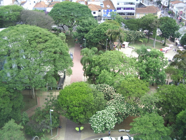 Square Sílvio Romero in São Paulo City.